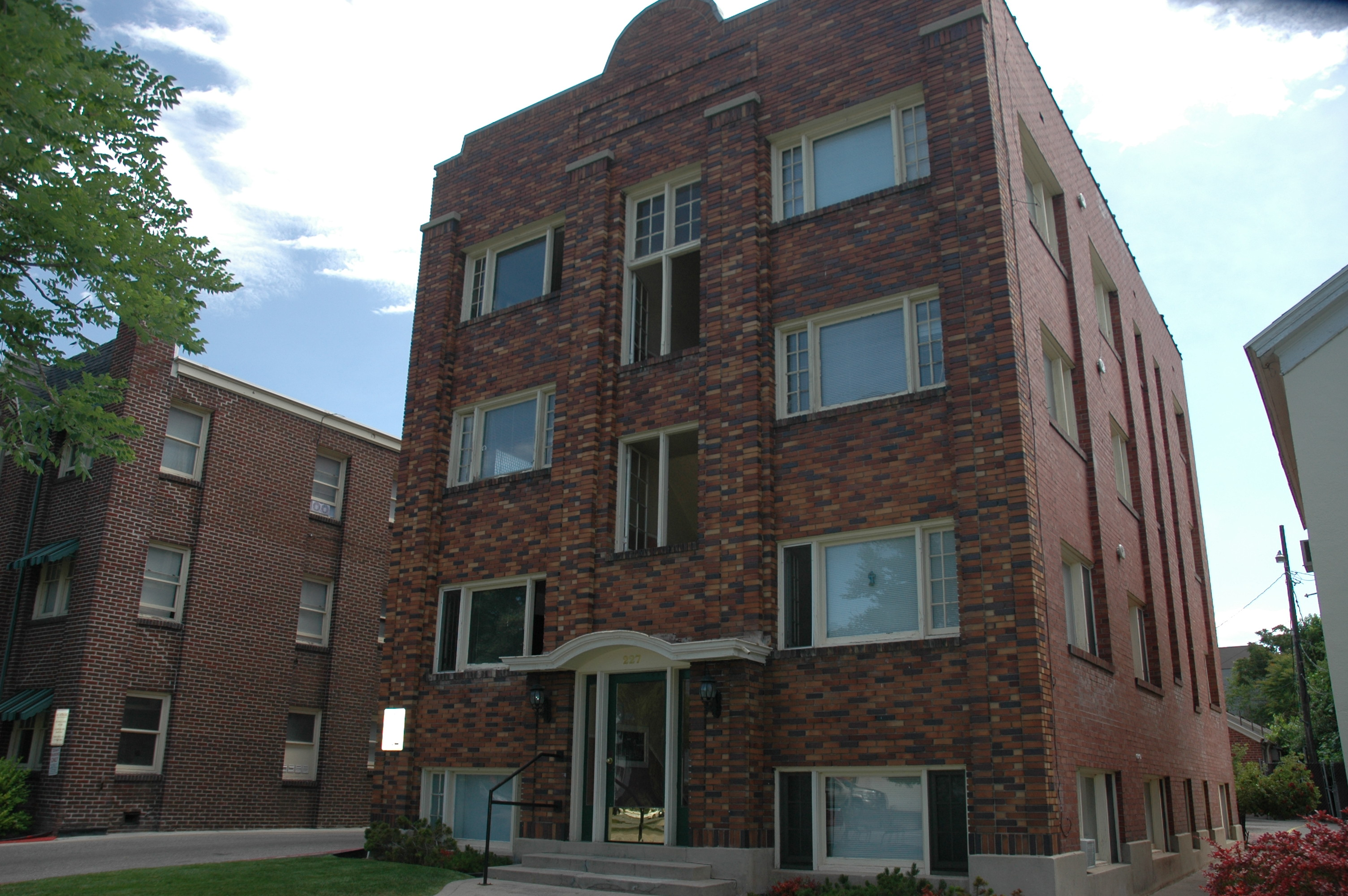 The Benworth-Chapman Apartments, a historic building in Salt Lake City, Utah, United States.